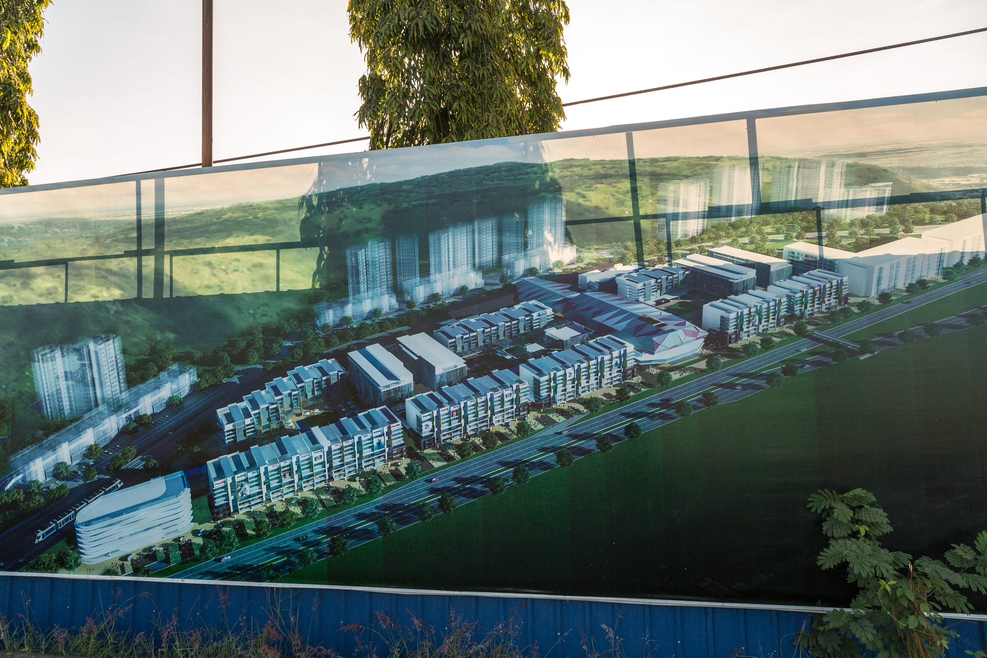 Kota Kinabalu, Sabah: Working site of AEROPOD project in February 2013 at the location of the former Terminal Muatan Keretapi Tanjung Aru)